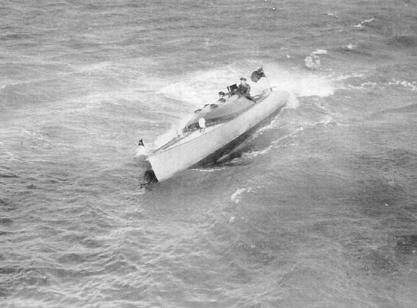 Wolseley-Siddely at the 1908 Summer Olympics